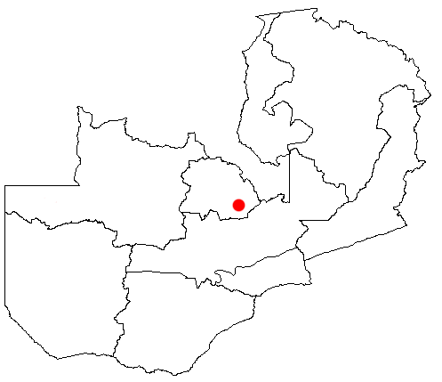 Mpongwe, Copperbelt province, Zambia Location Map; created with the GIMP. Made by User:Acntx